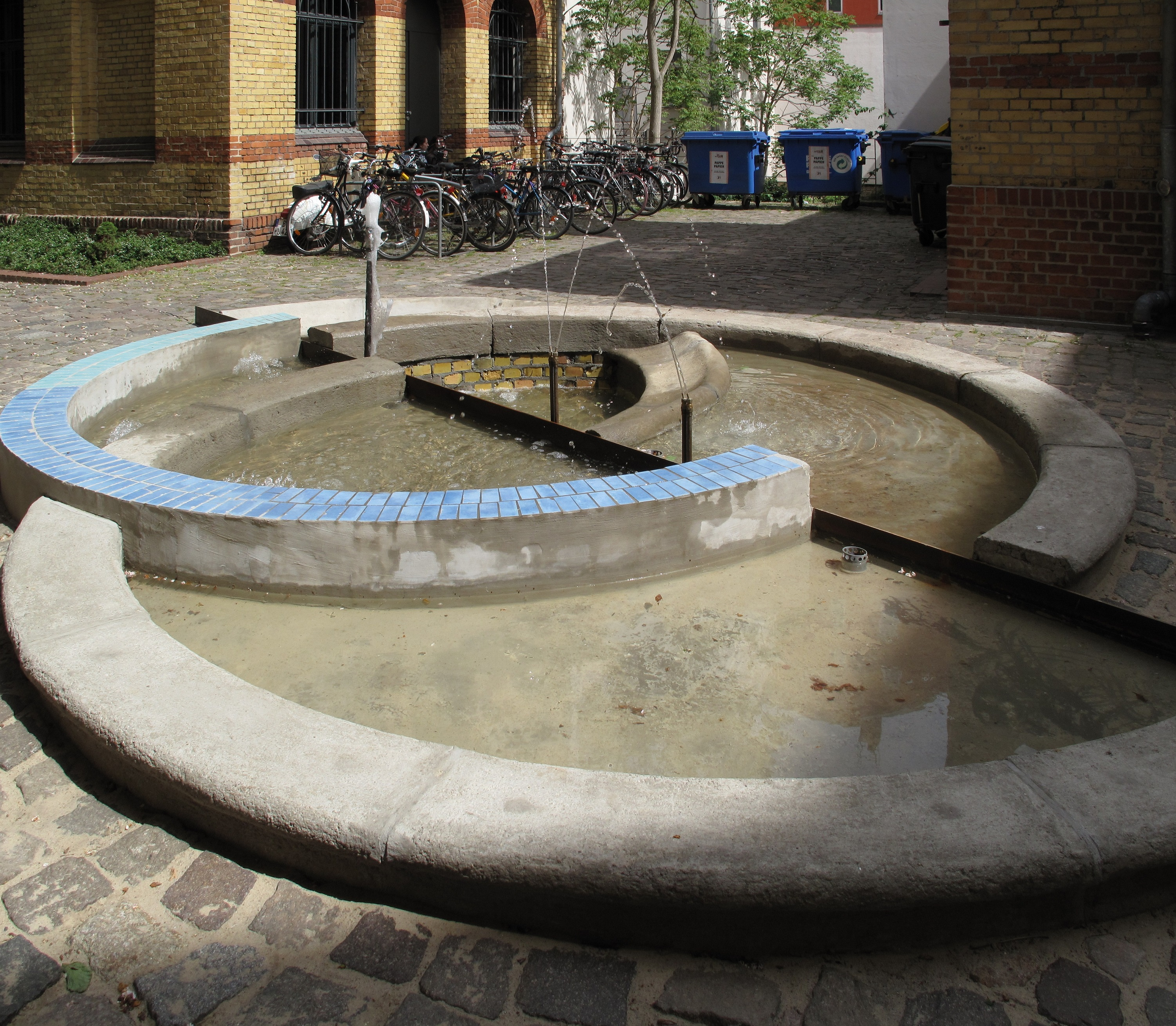 Fontes e sequestros is an art work, created by brazilian installation- and conceptual artist Renata Lucas on the occasion of Berlins Gallery Weekend 2015. It was presented by the gallery neugerriemschneider in the listed building Linienstraße No. 155 in Berlin-Mitte, Germany. The central part of the work, a fountain, is placed in the courtyard of the gallery. In the work Lucas combined the recasted structures of three Berlin-fountains from different architectural epochs into a new historical symbol.